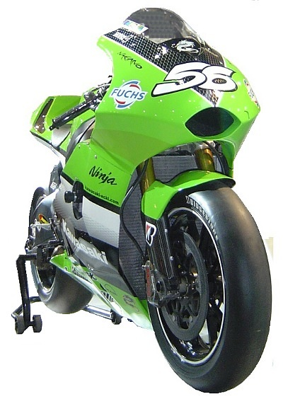 The front view of Kawasaki ZX-RR(2005 Tokyo Motor Show)